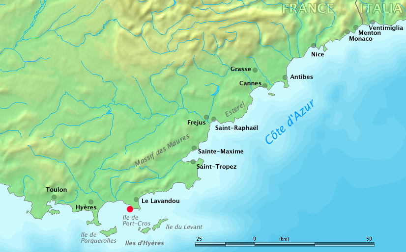 Map of Côte d'Azur, France Original work by Markus Bernet, background map courtesy of